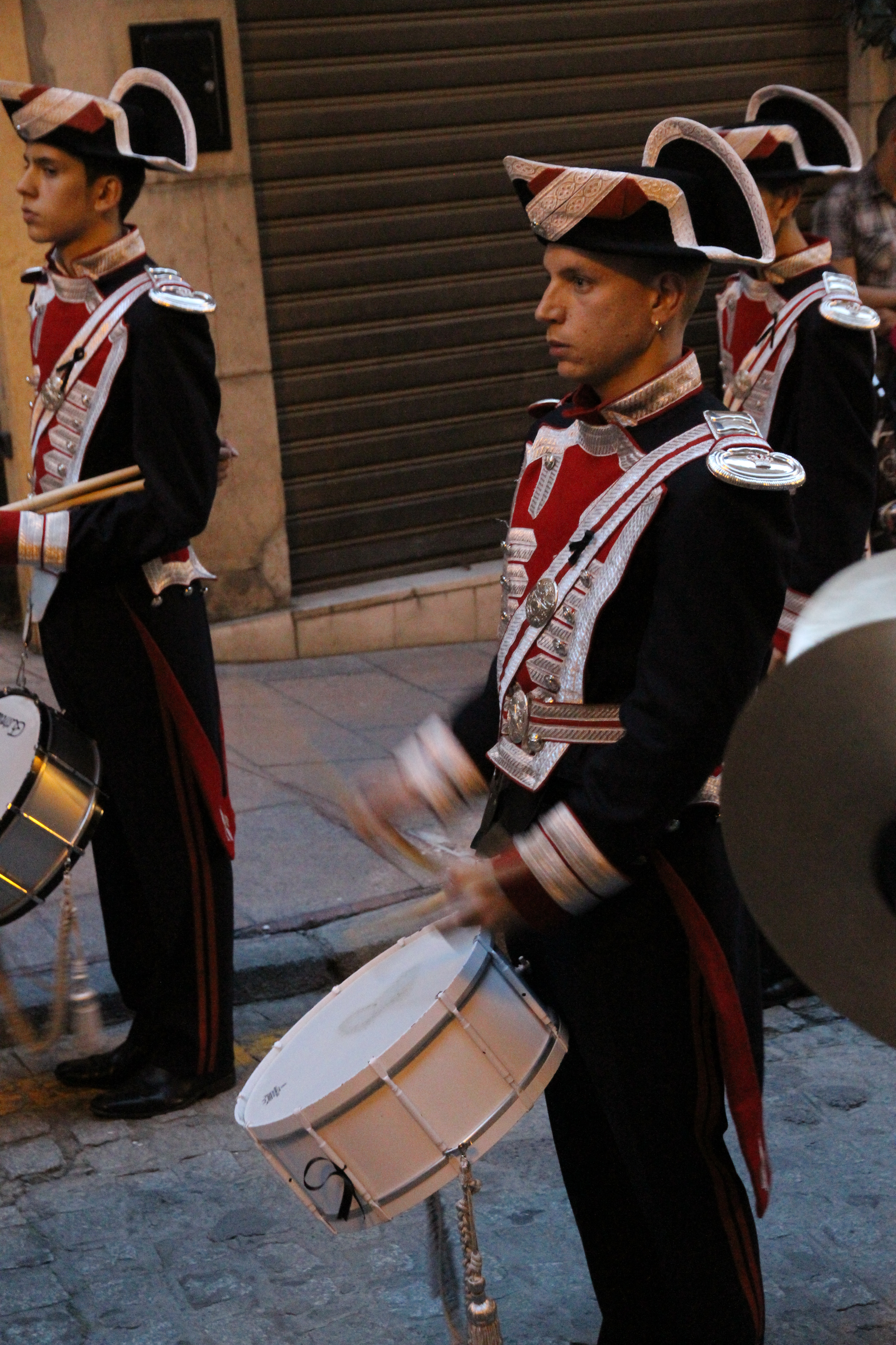 Ceuta Display Santa Miercoles